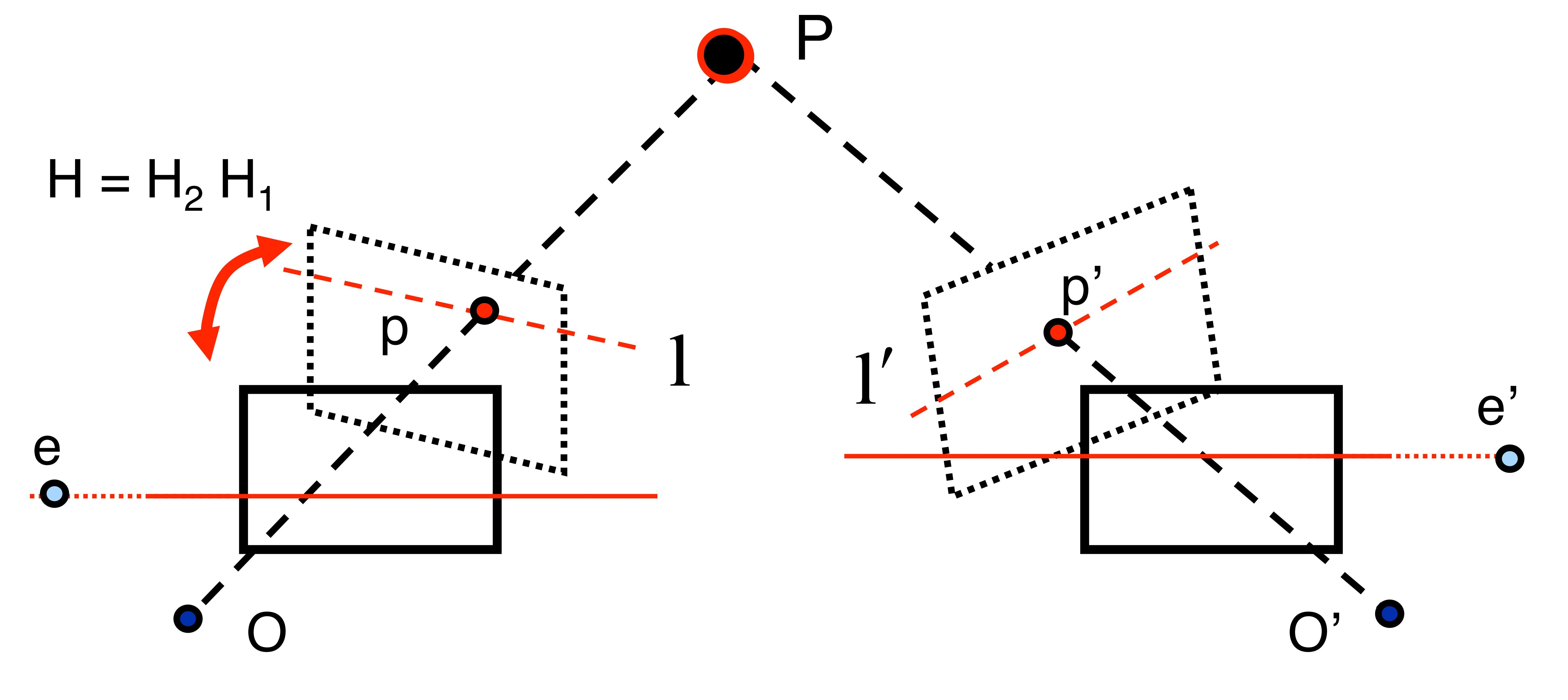 A visual representation of the variables used in image rectification example.